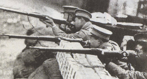 Military Police of the Republic of China in the Battle of Shanghai (1932)